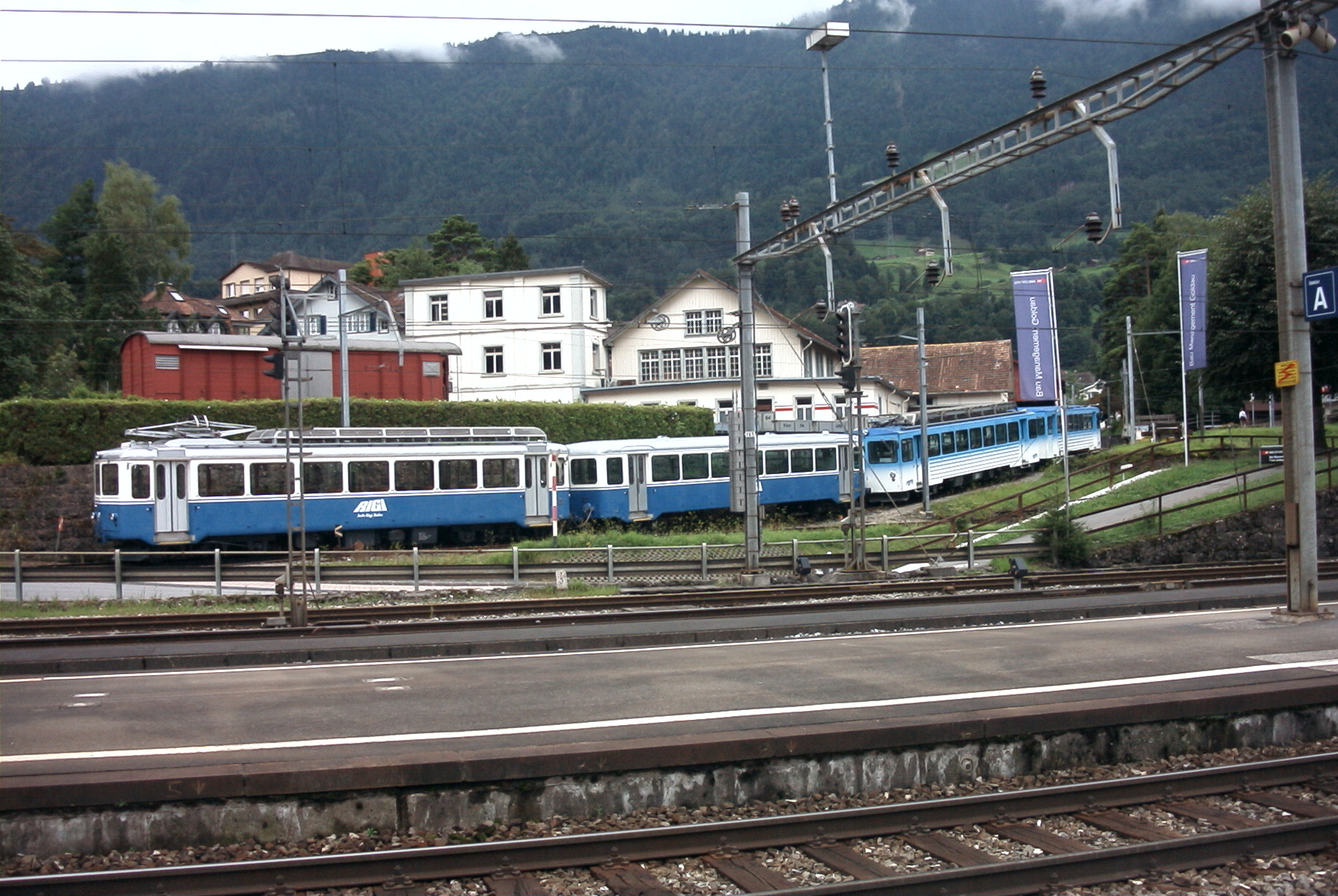 Push-pull sets 13-23 and 15-25 of the Rigi-Bahnen parked in Arth-Goldau